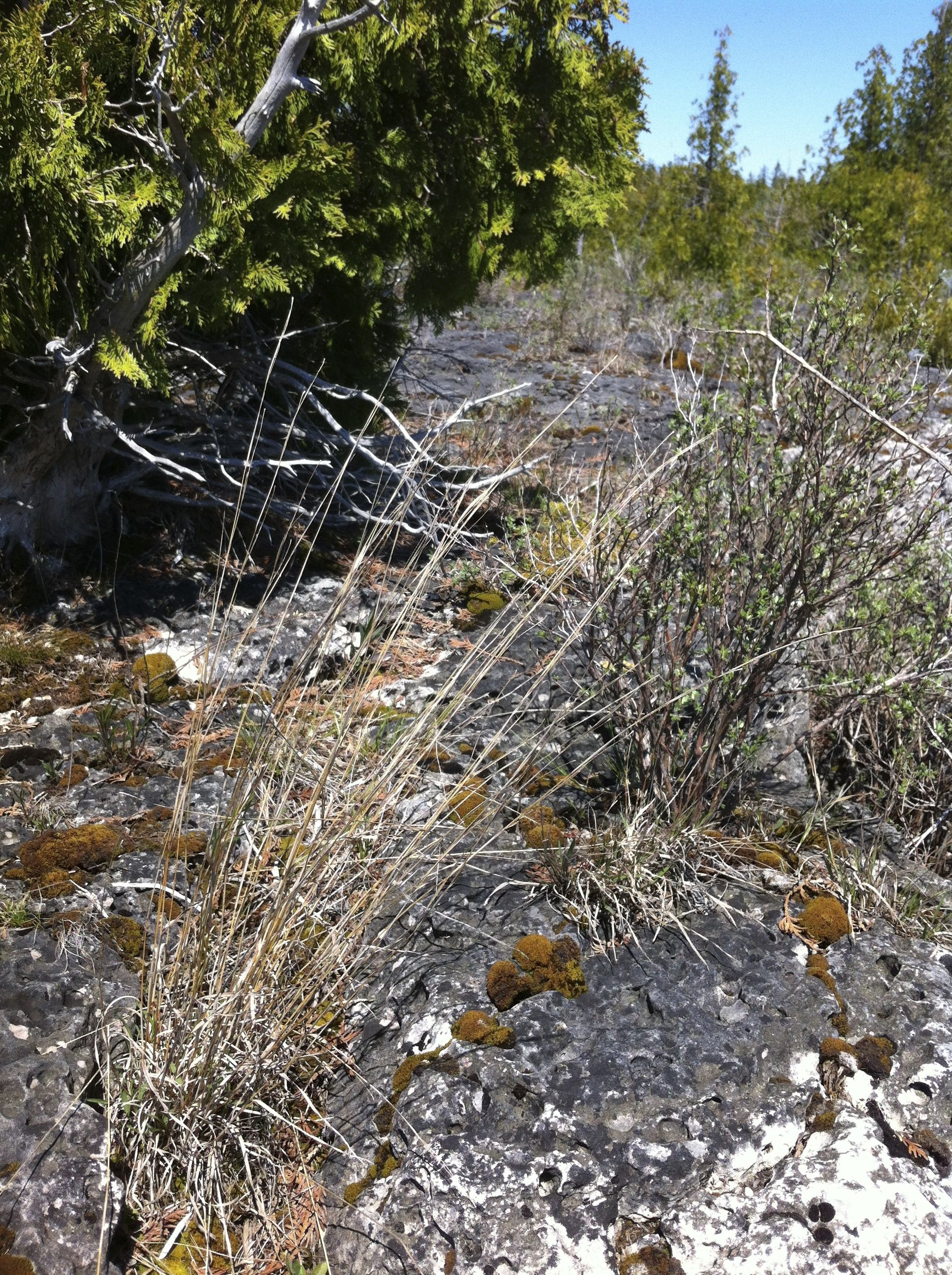 alvar plants, Tobemore, ON